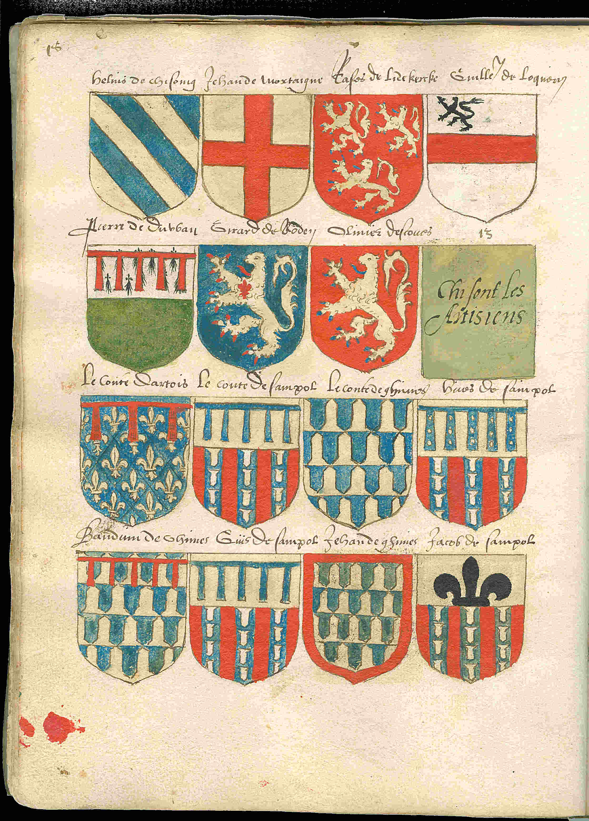 Page 16 from a copy of the Beyeren armorial / Wapenboek Beyeren from ca. 1600. The original Beyeren armorial from 1405 can be viewed at the website of the KB